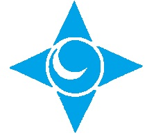 Noda Iwate chapter